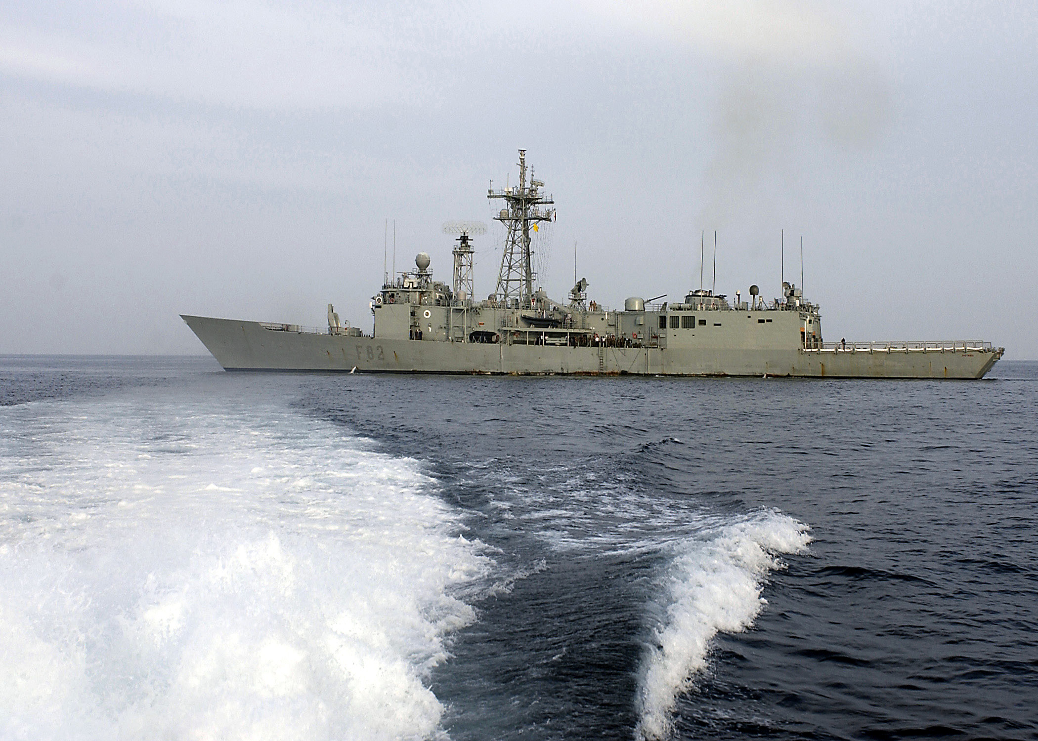 Persian Gulf (Jan. 12, 2004) -- The view from the rear of a Republic of Singapore Navy (RSN) Landing Craft Utility (LCU) embarked aboard RSS Endurance (L 207) as it departs the Spanish Navy Santa Maria-class frigate Victoria (F 82). The tank landing ship Endurance was transferring members of the Spanish19th Special Forces Unit. Spanish and Singapore Navy units are participating in the multi-nation Exercise Sea Saber 2004. Sea Saber will provide a multi-tiered training scenario in locating weapons of mass destruction aboard suspect ships operating in waters currently patrolled by coalition forces in support of Operations Enduring Freedom and Iraqi Freedom.